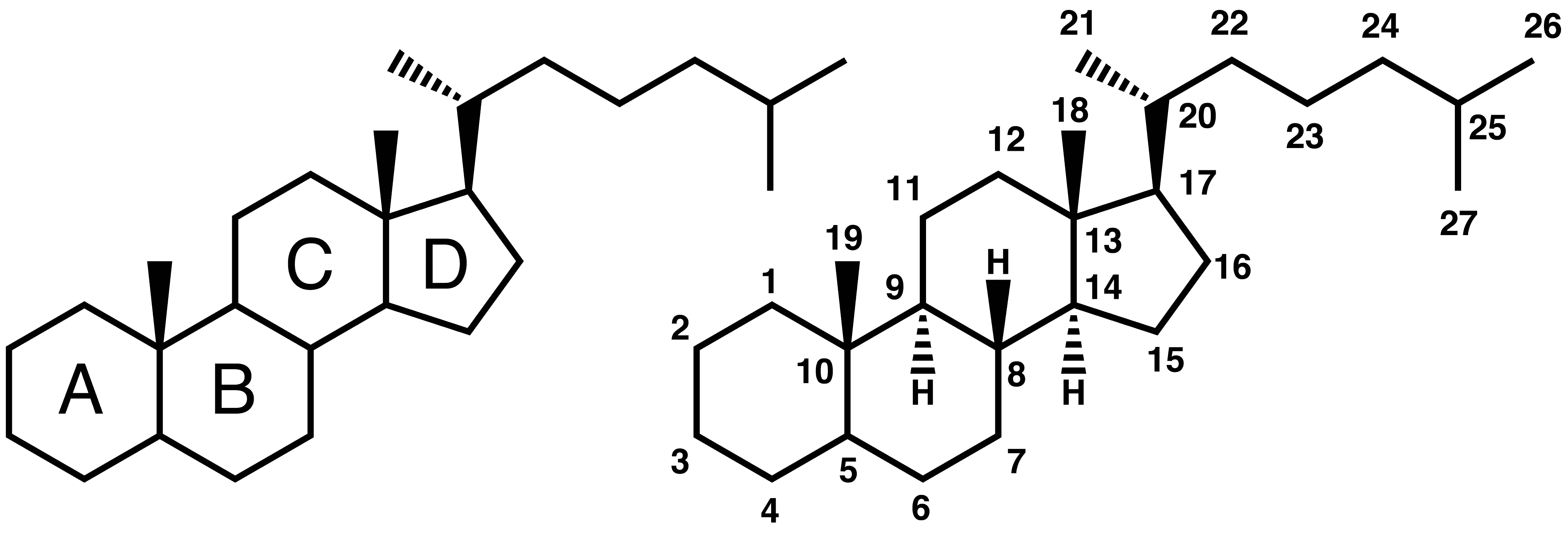 Standard IUPAC ring and atom numbering of the steroid skeleton according to [1].